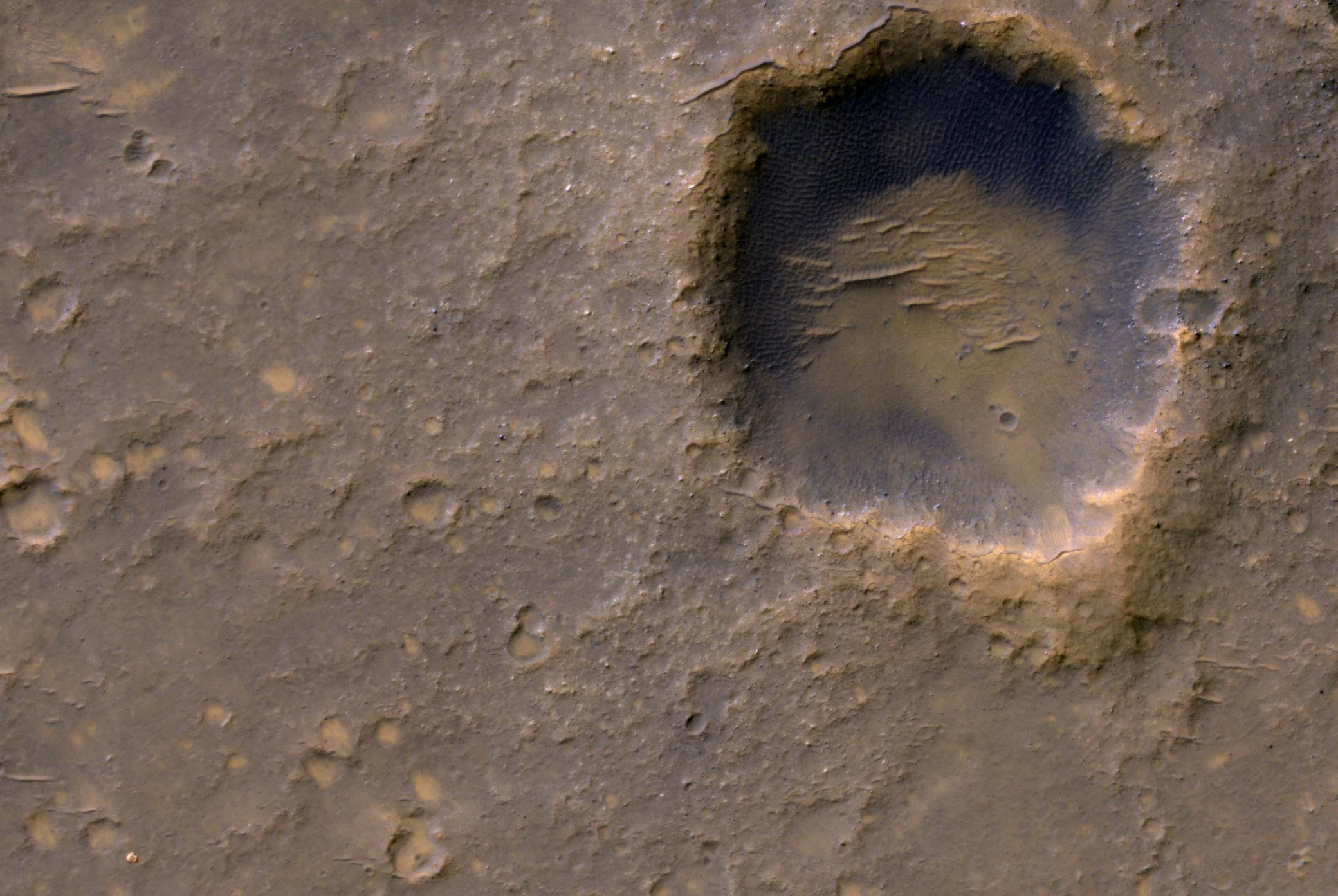 Near the lower left corner of this view is the three-petal lander platform that NASA's Mars Exploration Rover Spirit drove off in January 2004. The lander is still bright, but with a reddish color, probably due to accumulation of Martian dust. The High Resolution Imaging Science Experiment (HiRISE) camera on NASA's Mars Reconnaissance Orbiter recorded this view on Jan. 29, 2012, providing the first image from orbit to show Spirit's lander platform in color. The view covers an area about 2,000 feet (about 600 meters) wide, dominated by Bonneveille Crater. North is up. A bright spot on the northern edge of Bonneville Crater is a remnant of Spirit's heat shield. Spirit spent most of its six-year working life in a range of hills about two miles east of its landing site. An image of the lander platform taken by Spirit's Panoramic Camera (Pancam) after the rover had driven off is at PIA05117. The bright heat shield remnant can be seen in a panorama the same camera took of Bonneville Crater, at PIA05591. This image is one product from HiRISE observation ESP_025815_1655. Other products from the same observation can be found at ESP_025815_1655. HiRISE is operated by the University of Arizona, Tucson. The instrument was built by Ball Aerospace & Technologies Corp., Boulder, Colo. NASA's Jet Propulsion Laboratory, a division of the California Institute of Technology in Pasadena, manages the Mars Reconnaissance Orbiter Project for NASA's Science Mission Directorate, Washington. Lockheed Martin Space Systems, Denver, built the spacecraft.